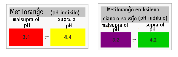 Methyl orange indicator